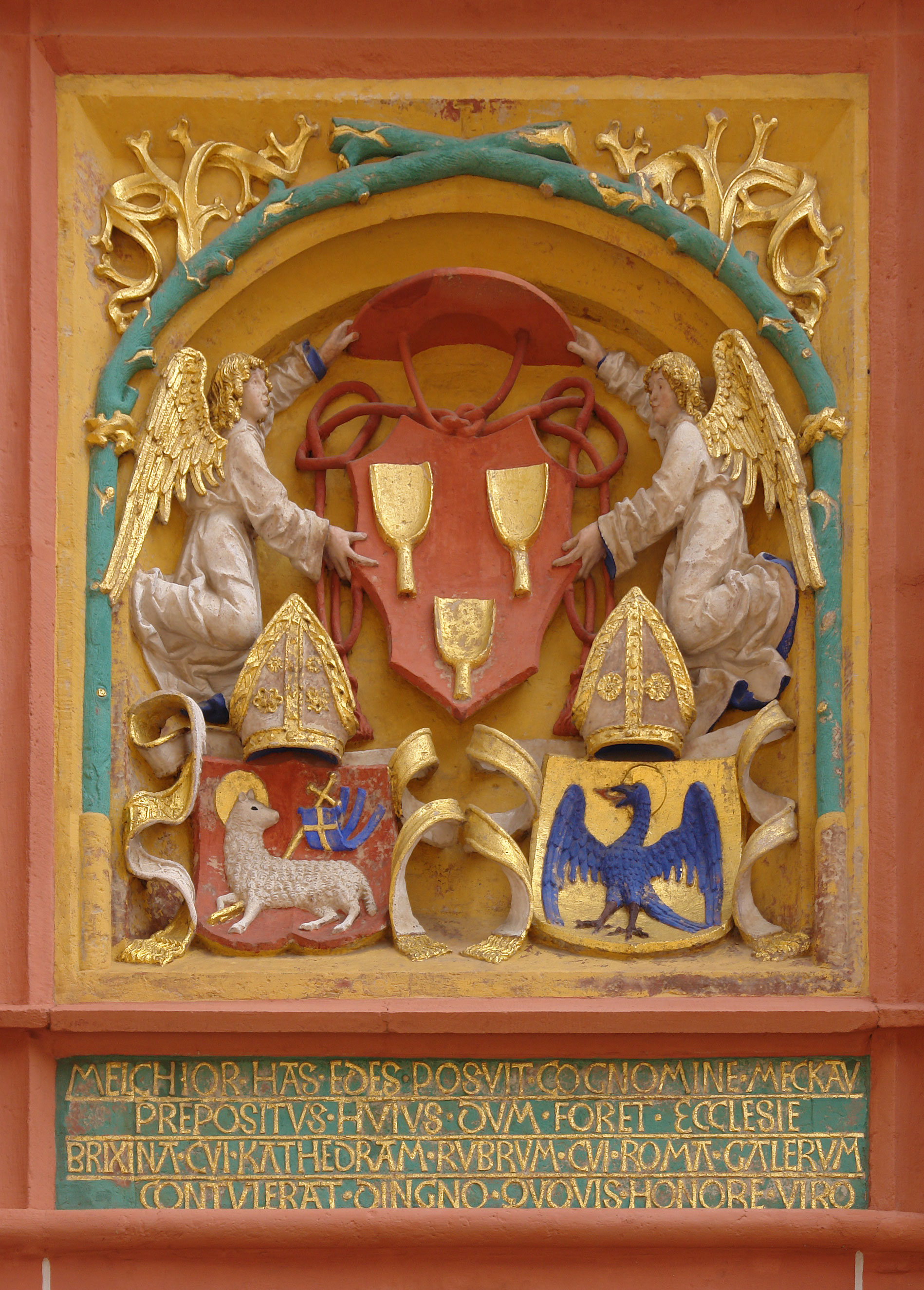 heraldry on Albrechtsburg, Domplatz 7, Meißen, Saxony, Germany (1497–1503)